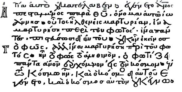 John 1:5b-10 in Codex Ebnerianus; example of minuscule writings